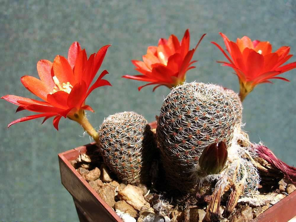 Rebutia albopectinata Rausch - cultivated plant from own collection.